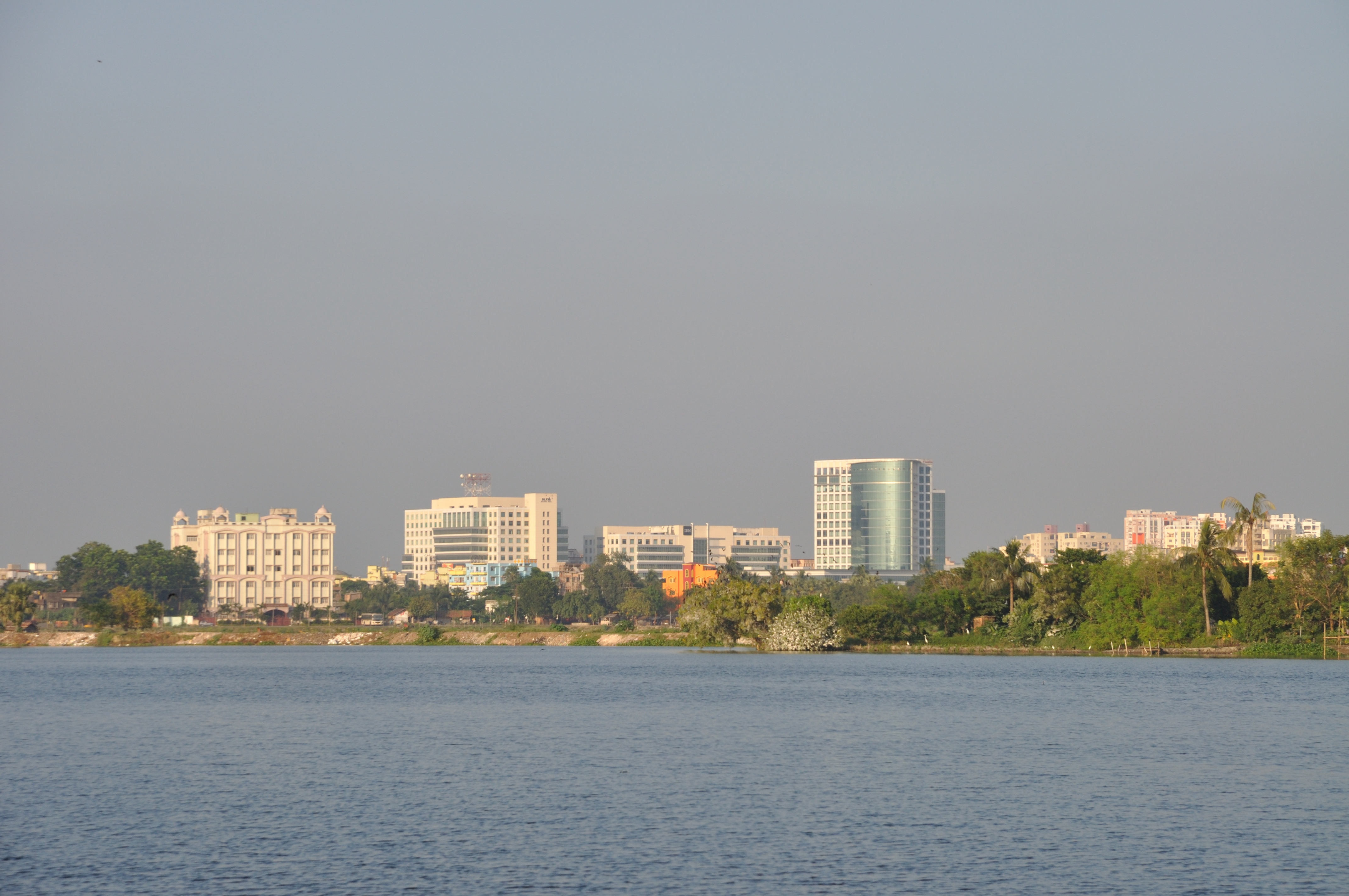 Jyoti Basu Nagar also called Rajarhat Gopalpur (renamed from New Town on 7th October, 2010), a neighbourhood of Calcutta, located in North 24 Parganas district of West Bengal, is a fast-growing planned new city.